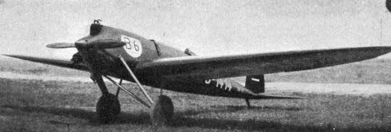 Bäumer B IV a Sausewind photo from L'Aerophile Salon 1932